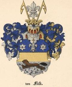 Coat of arms of von Fick family